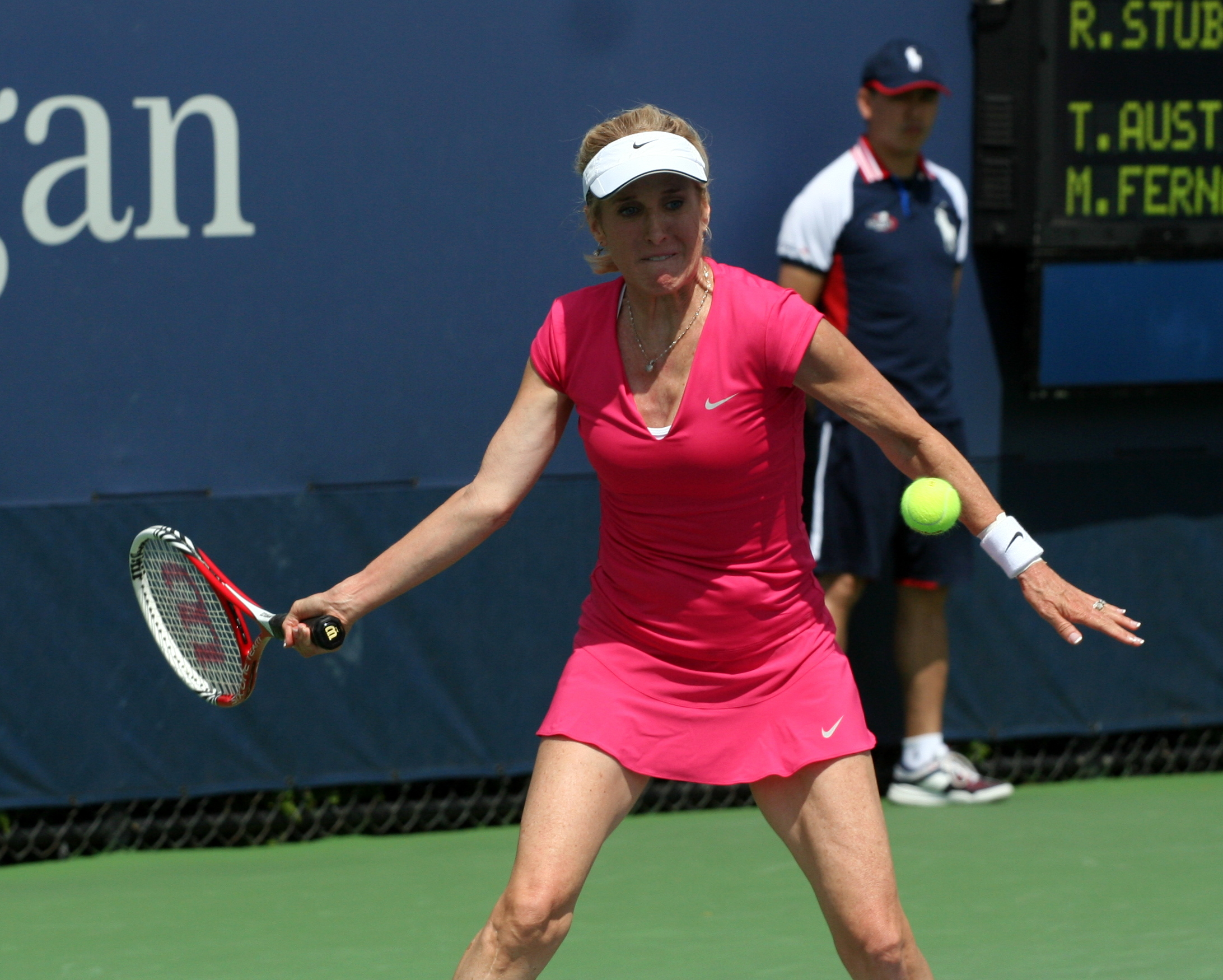 U.S. Open Champions Invitational Thursday, Sept. 5, 2013